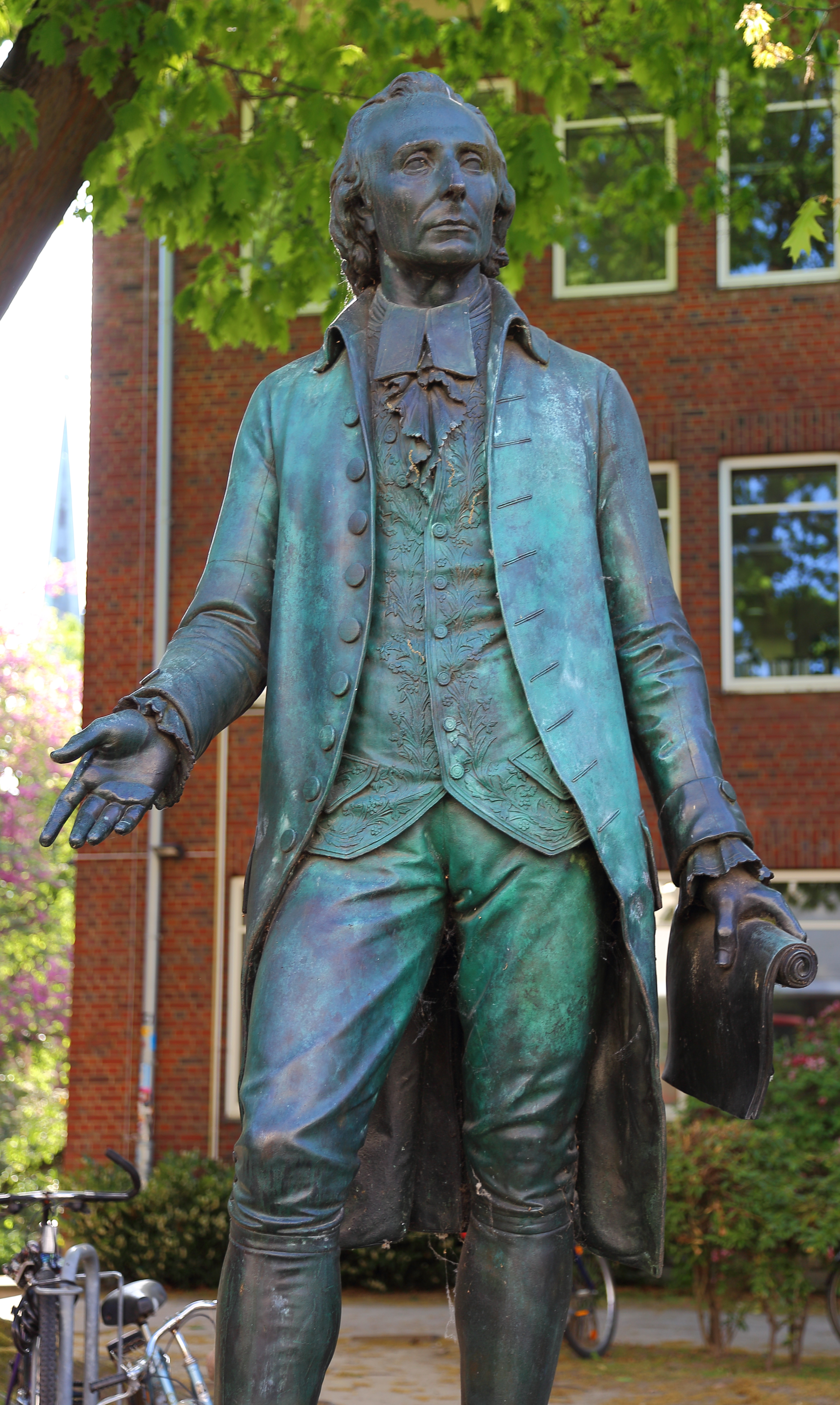 The Franz von Fürstenberg Memorial (Franz-von-Fürstenberg-Denkmal) at Fürstenberg House (Fürstenberghaus) in Münster, North Rhine-Westphalia, Germany. The sculpture was made in 1875 by Heinrich Fleige.